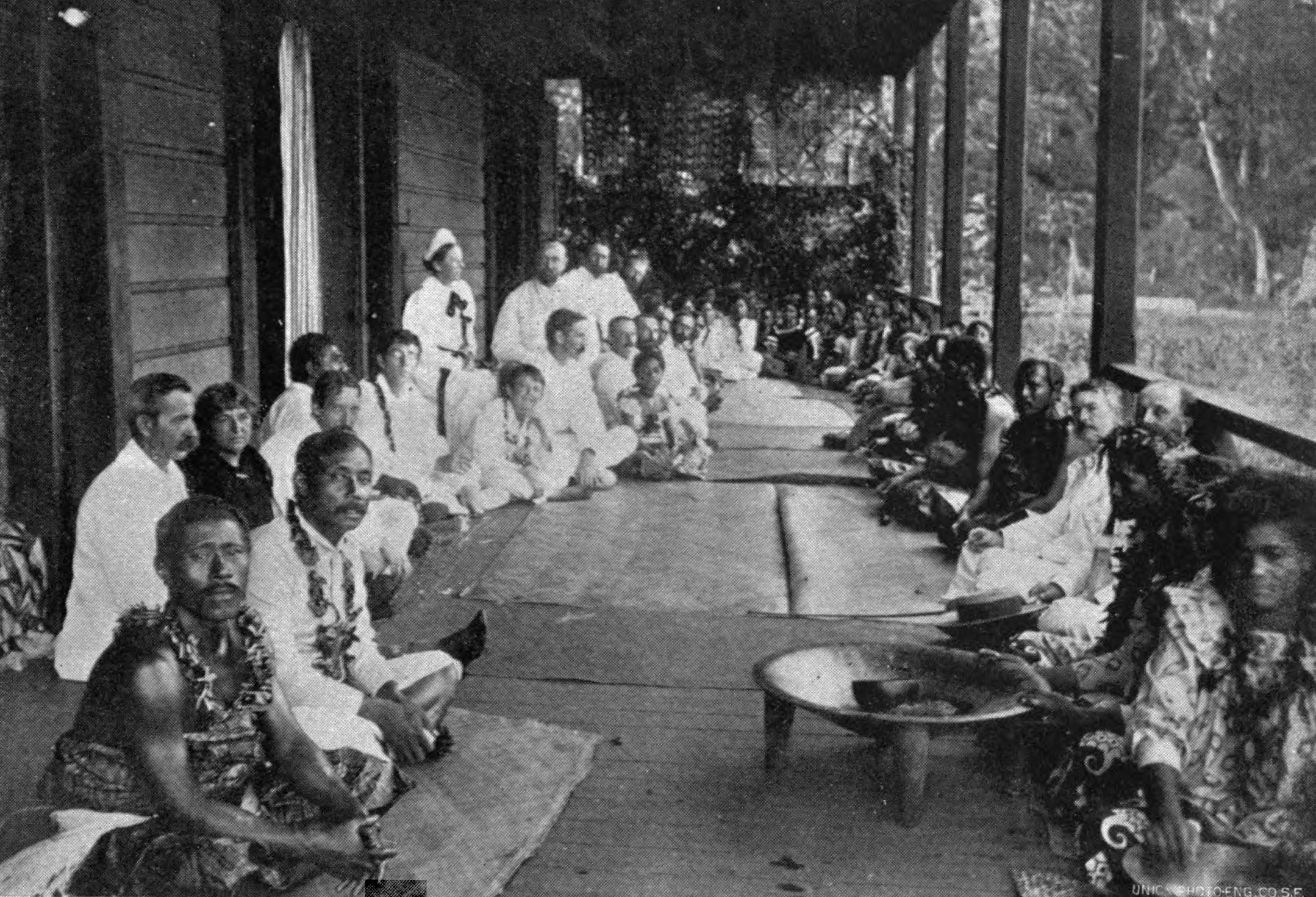 Robert Louis Stevenson's birthday fete in Samoa, published in 1896 book